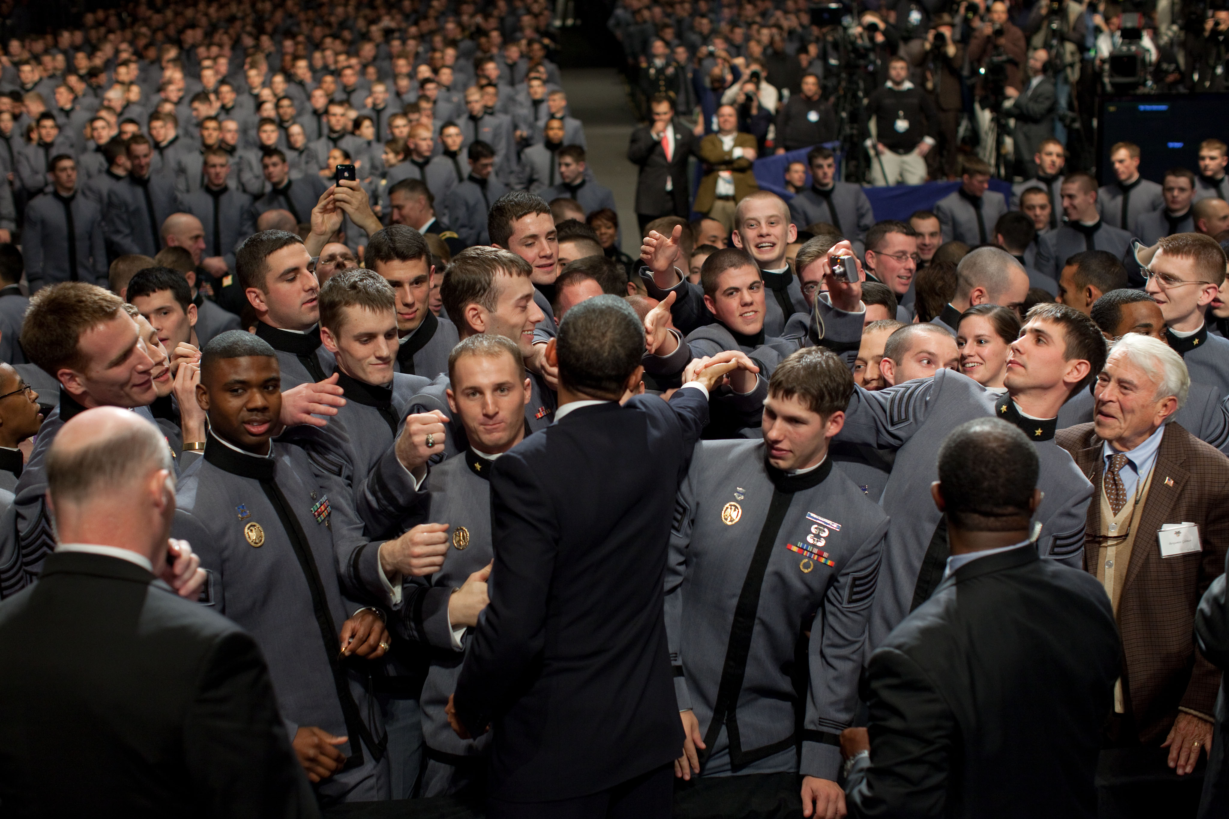 President Barack Obama greets cadets after delivering a speech on Afghanistan at the U.S. Military Academy at West Point in West Point, N.Y., Dec. 1, 2009.